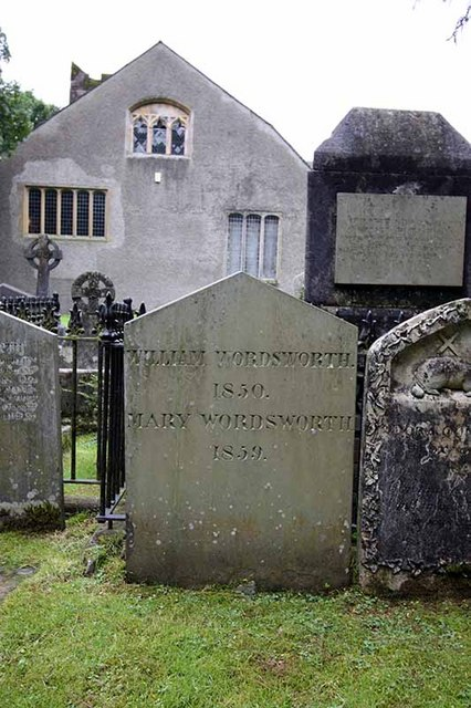 St Oswald, Grasmere, Cumbria - Gravestone Grave of William Wordsworth